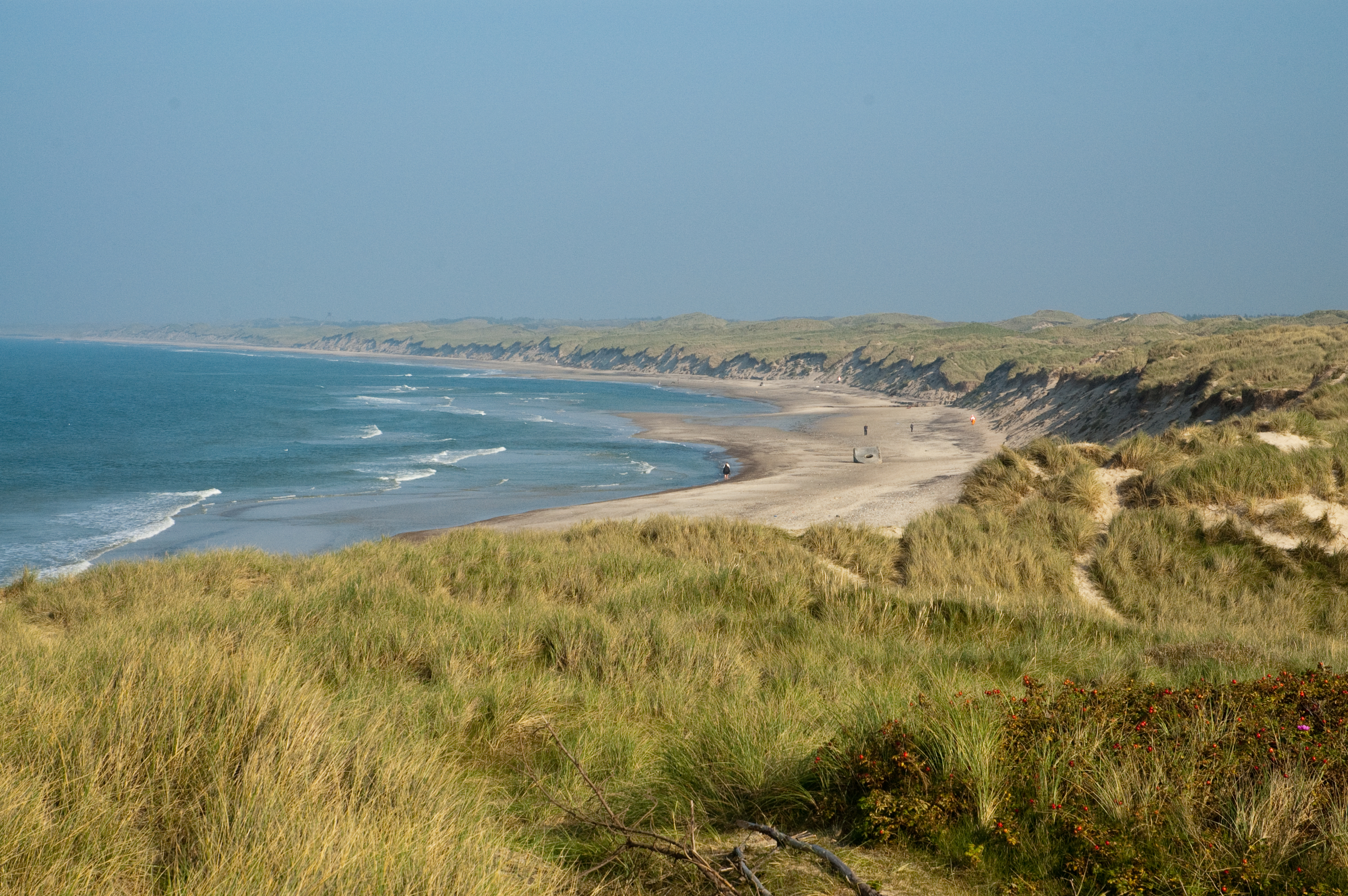 the coast north of Nørre Vorupør in Jutland, Denmark.